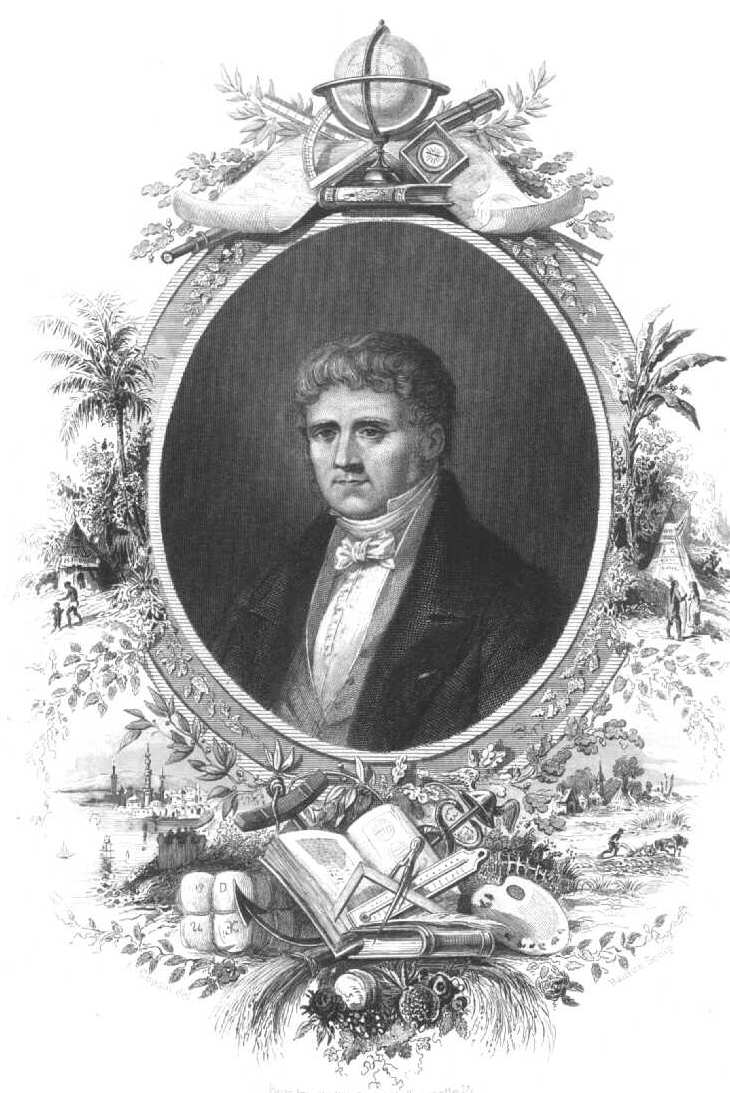 from [1]